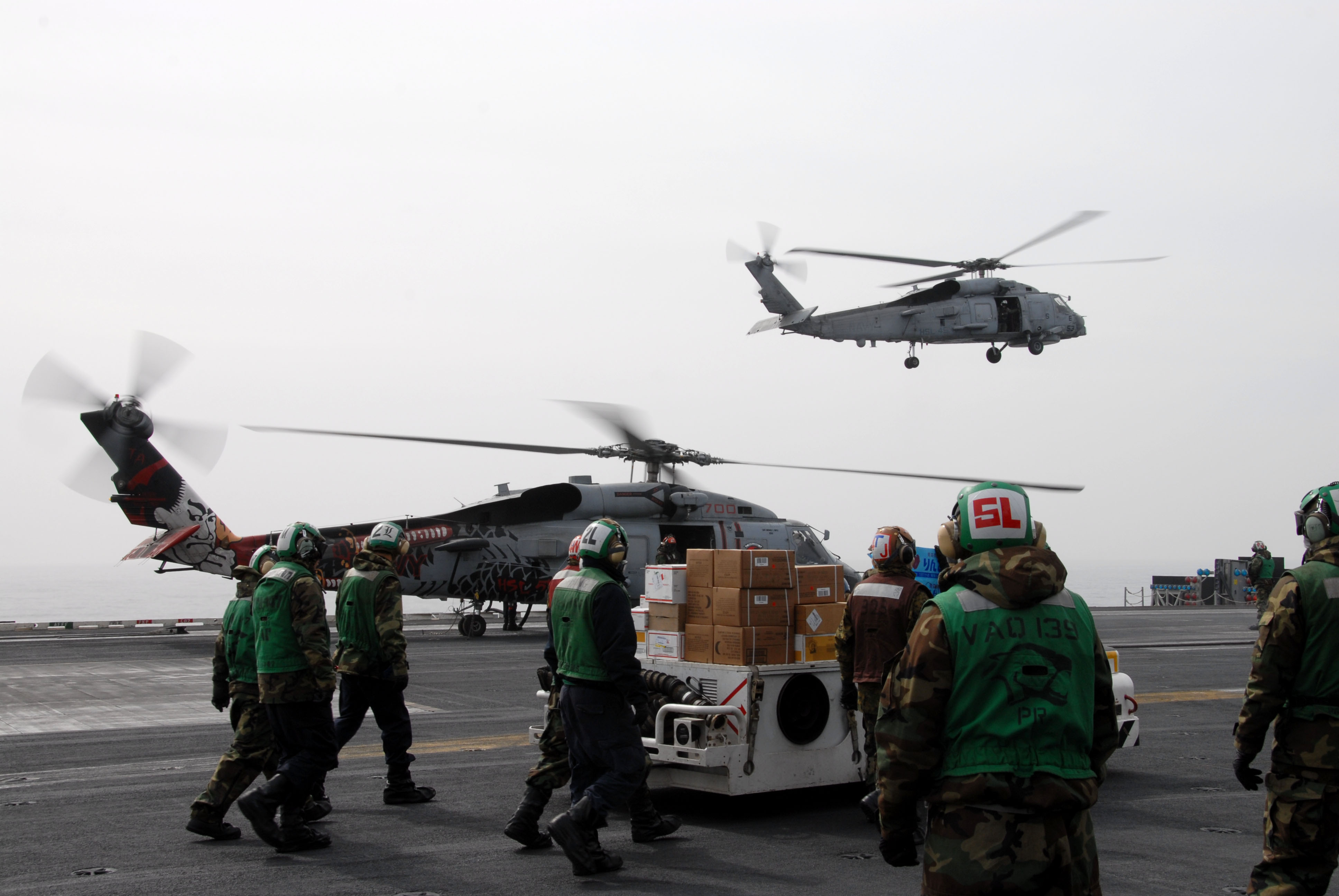 PACIFIC OCEAN (March 20, 2011) Sailors and Marines prepare to load food and emergency relief supplies onto an SH-60F Sea Hawk helicopter assigned to the Warlords of Helicopter Anti-Submarine Squadron Light (HSL) 51 aboard the aircraft carrier USS Ronald Reagan (CVN 76). Ronald Reagan is operating off the coast of Japan to provide disaster relief and humanitarian assistance as directed in support of Operation Tomodachi. (U.S. Navy photo by Mass Communication Specialist 3rd Class Anthony Johnson/Released)